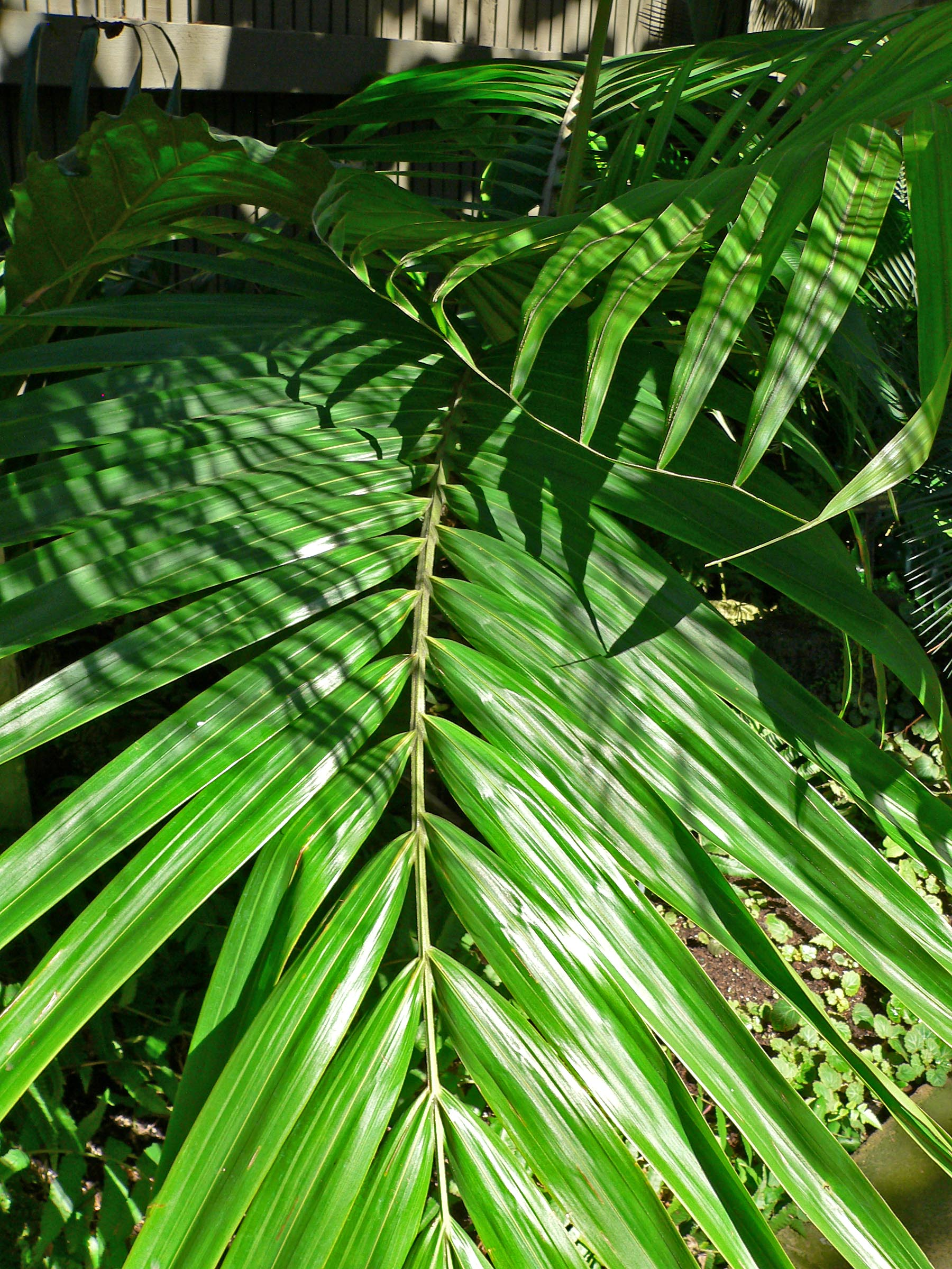 Photo of Burretiokentia vieillardii at Balboa Park